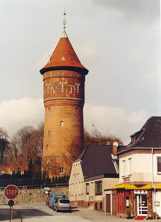 Watertower of Bad Segeberg, Slesvic-Holstein (Germany), photo 2002